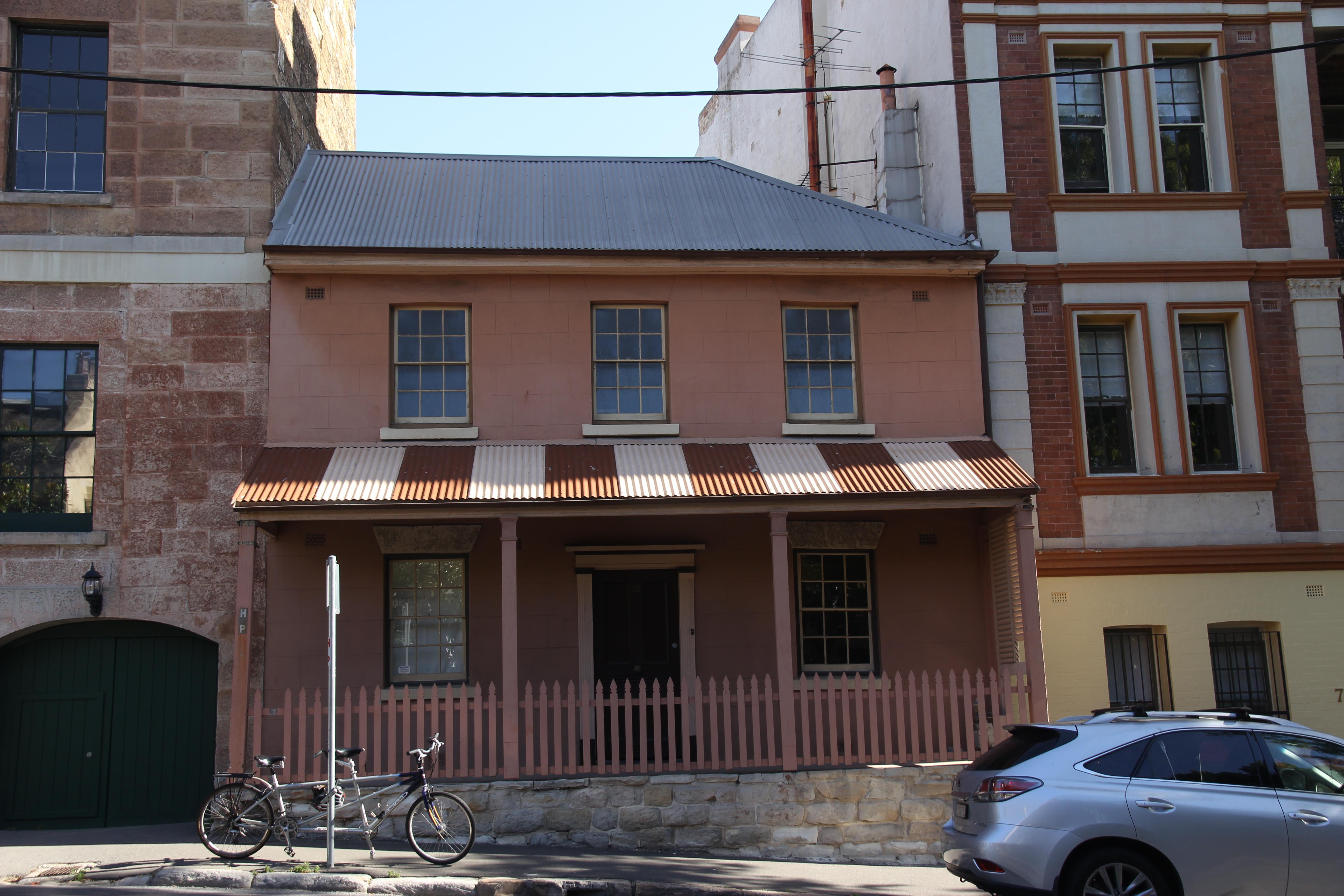 1-63 Windmill Street, Millers Point in the City of Sydney, New South Wales, Australia